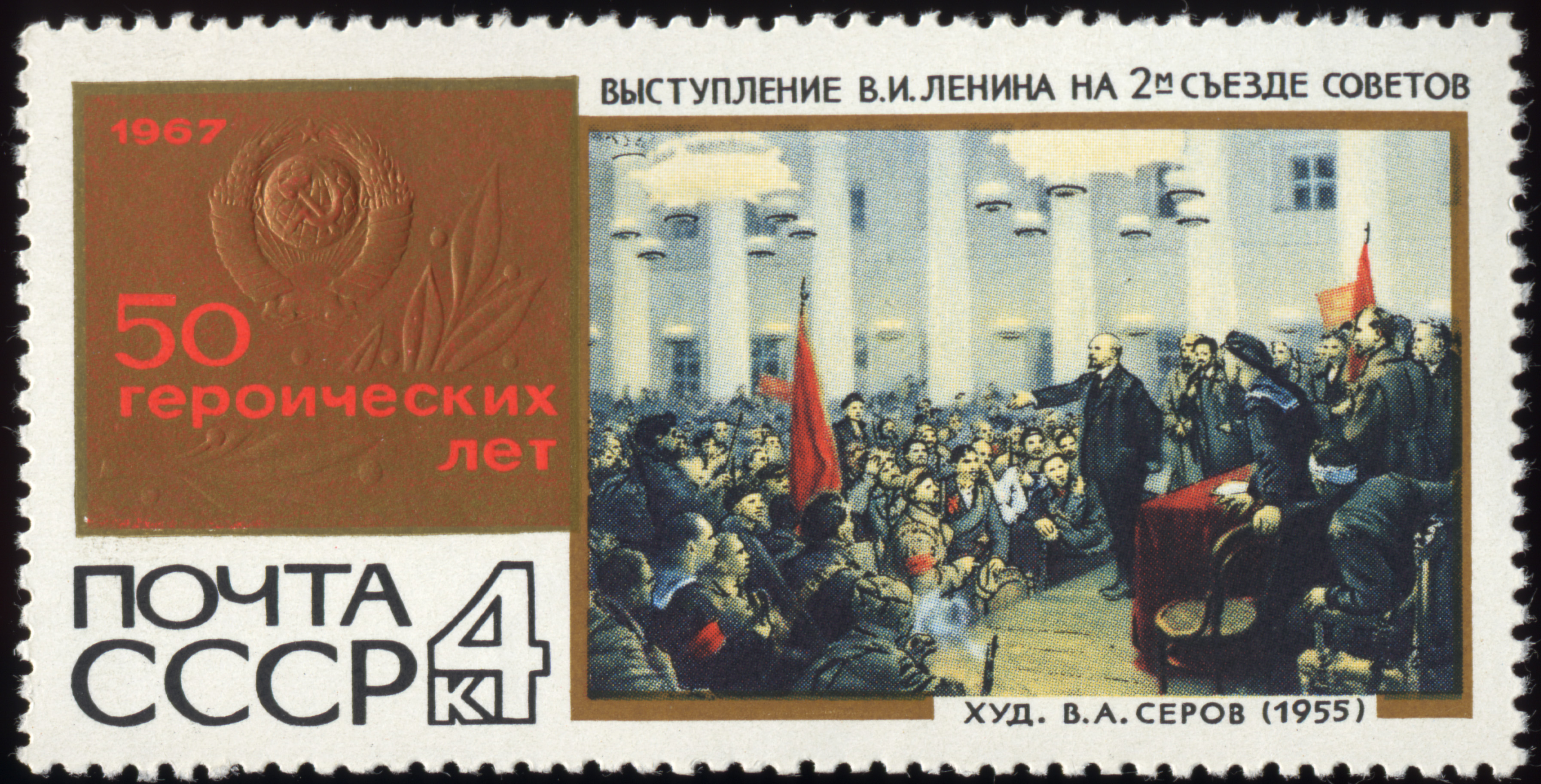 1967 Soviet Union 4 kopeks stamp. 50 Heroic Years. Lenin's Speech on 2nd Congress of Soviets by V. A. Serov (1955).